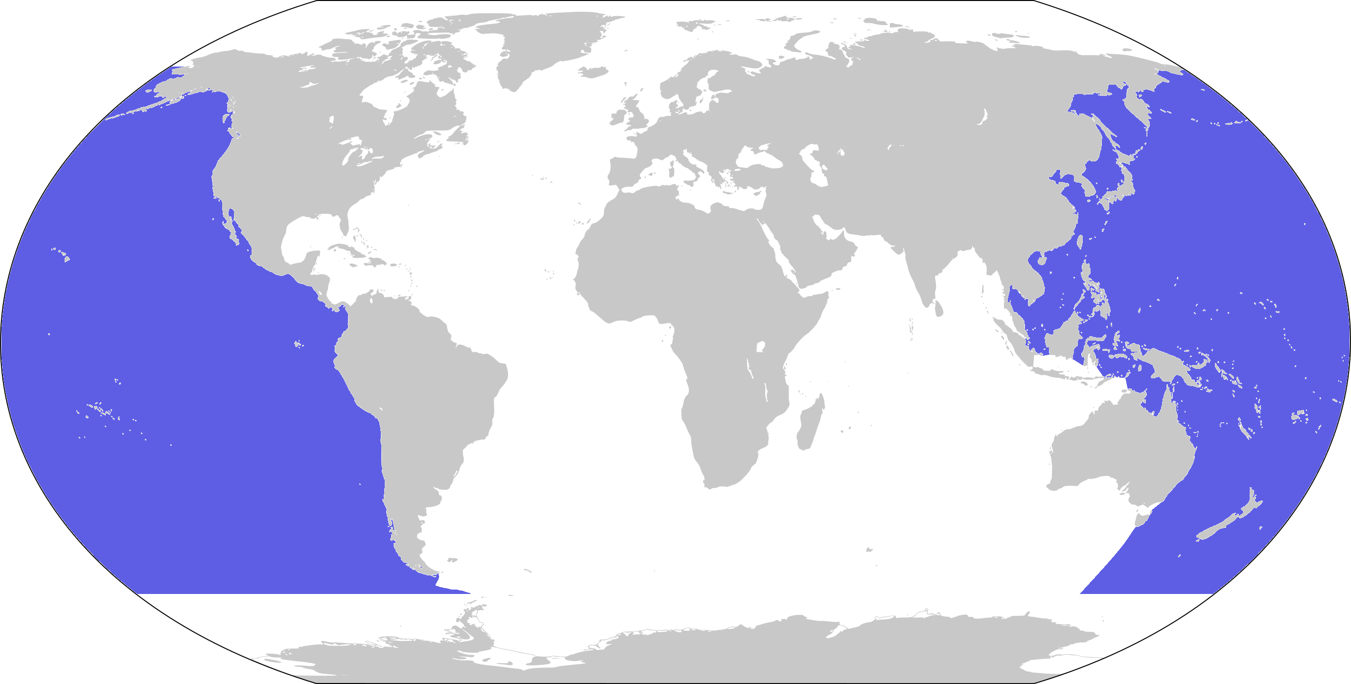 World map depicting Pacific Ocean; map adapted from PDF World map at CIA World Fact Book